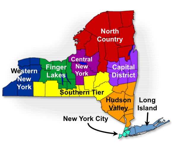 Map of New York State, broken down into its major component regions. Edited (regions labeled) by user Wadester16